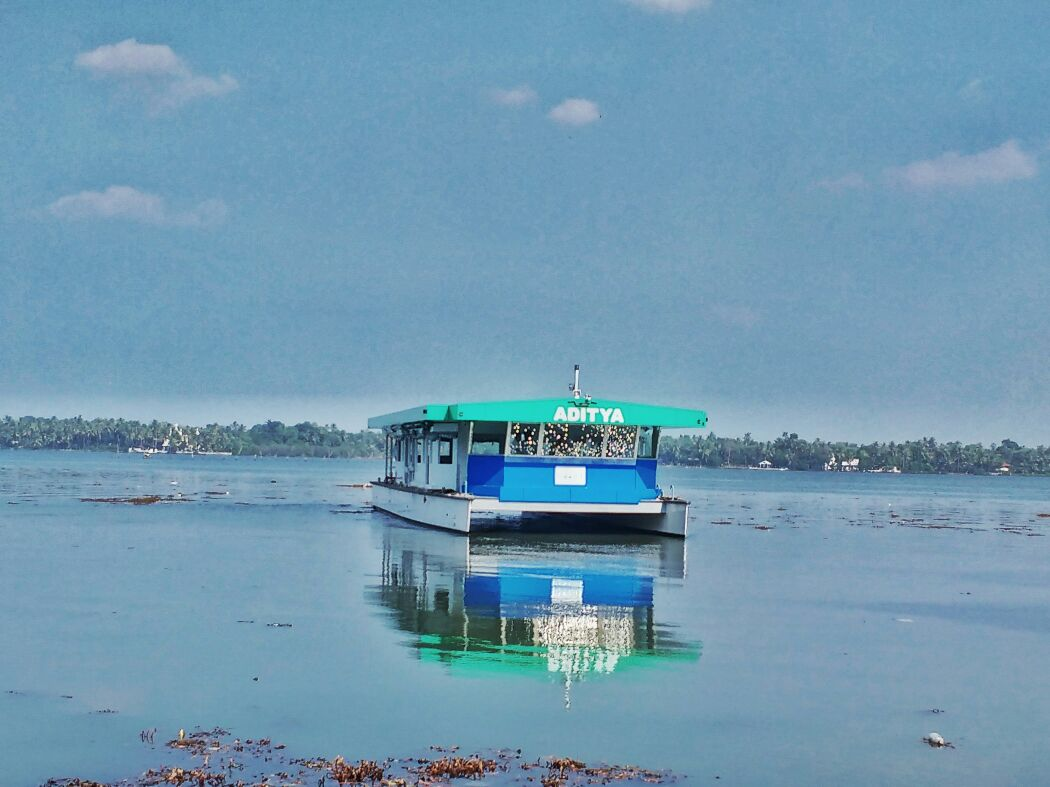 ADITYA, India's first solar ferry in operation